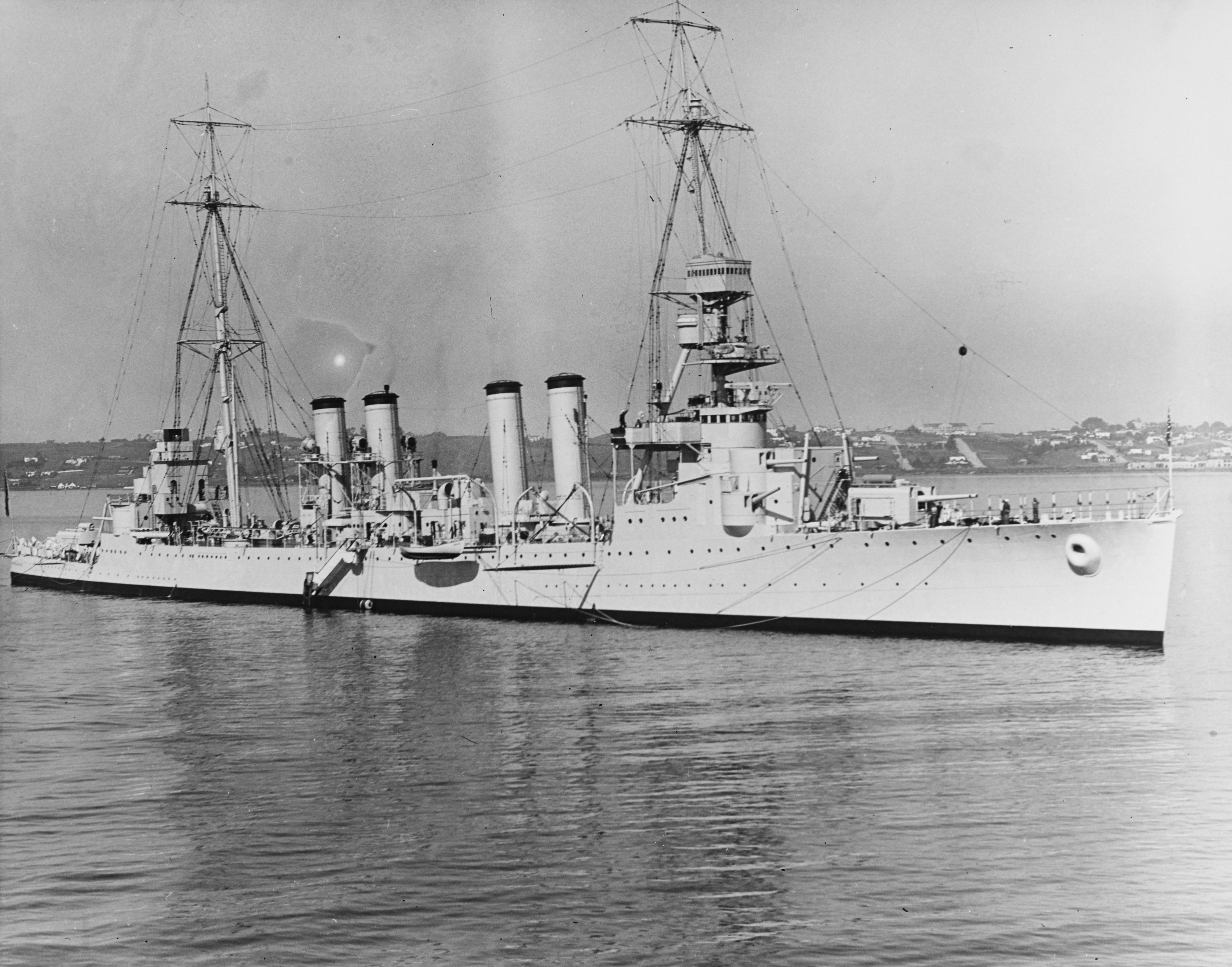 The U.S. Navy light cruiser USS Marblehead (CL-12) circa the early 1930s, probably at San Diego, Califronia (USA).